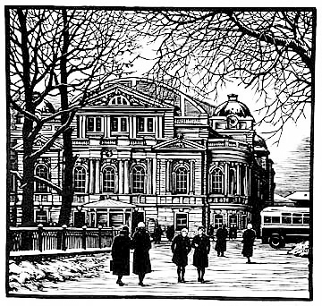 Theatre Shevchenko, Charkiv